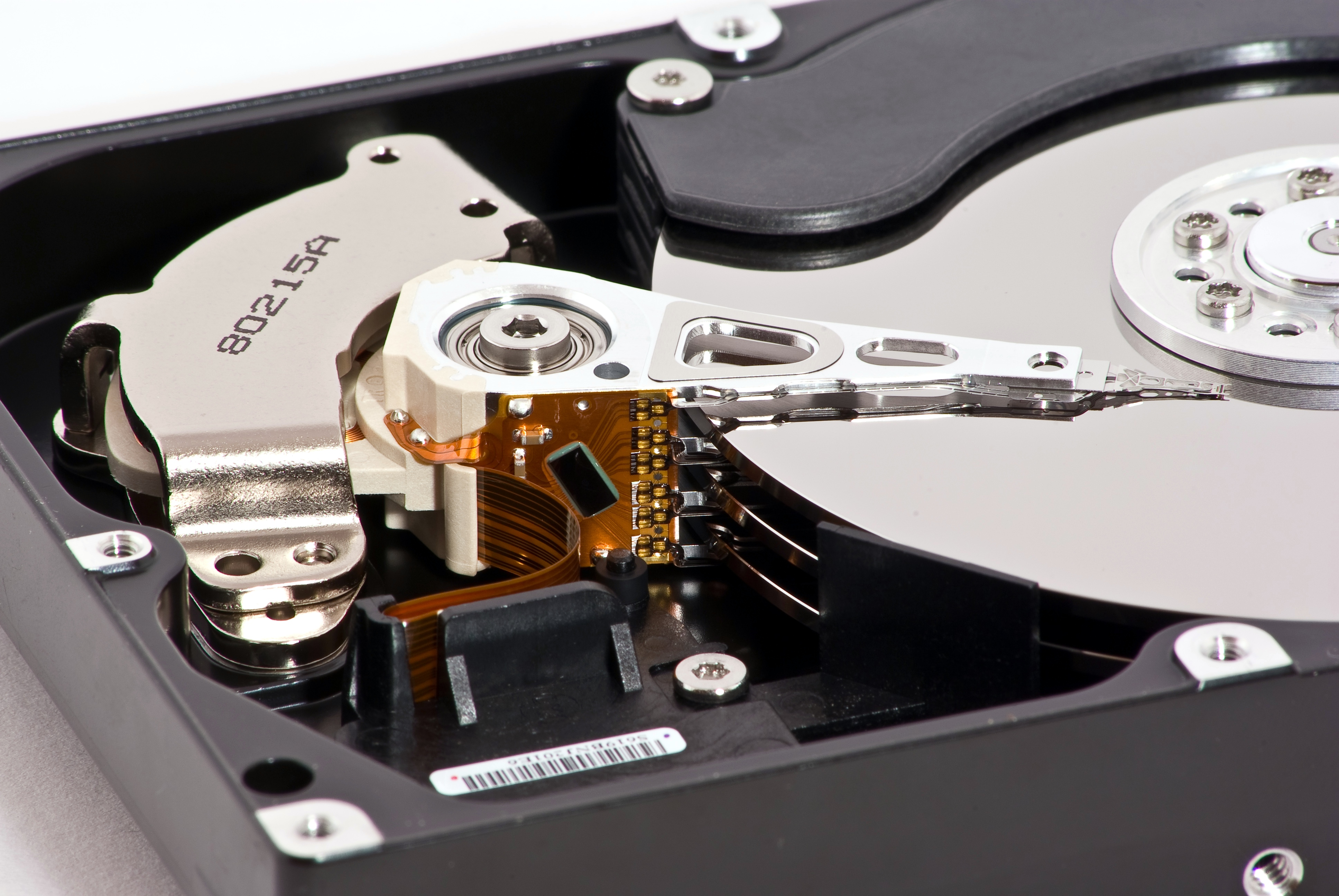 Samsung HD753LJ hard disk drive (750 GB storage capacity, date of manufacture: March 2008). Actuator with read/write-head, platters.